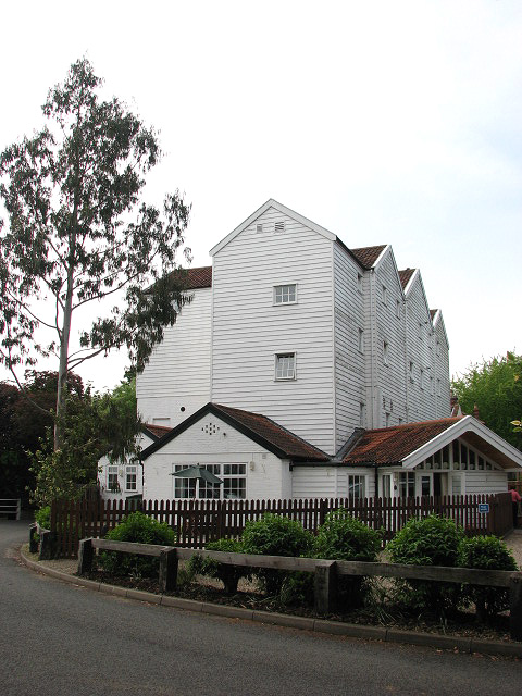 The former Buxton Water Mill Viewed from the east. The existence of a watermill at Buxton was recorded in the Domesday book of 1085; the mill was last rebuilt (as a working mill) in 1754 by William Pepper, a merchant living in Buxton, the building being constructed of white painted brick and weatherboard, with a pantile roof. The millstones, used for grinding animal food stuffs and flour, were driven by water power. 98% of the milled wheat was grown locally, and in its heyday Buxton mill produced 1 ton of flour per hour. A silo was added in 1930, followed by a dryer in 1947 and in 1970 the mill was closed; first used as tea rooms then as an art gallery and craft centre, and later as a restaurant, the building was destroyed by a fire in 1991. Reconstructed by architect Keith Reay from 19th century North American pitched pine, salvaged from throughout Great Britain, this was the to-date largest timber-framed reconstruction to take place in the UK. After conversion into a hotel in 1998 the building has since then been converted again, this time into flats.